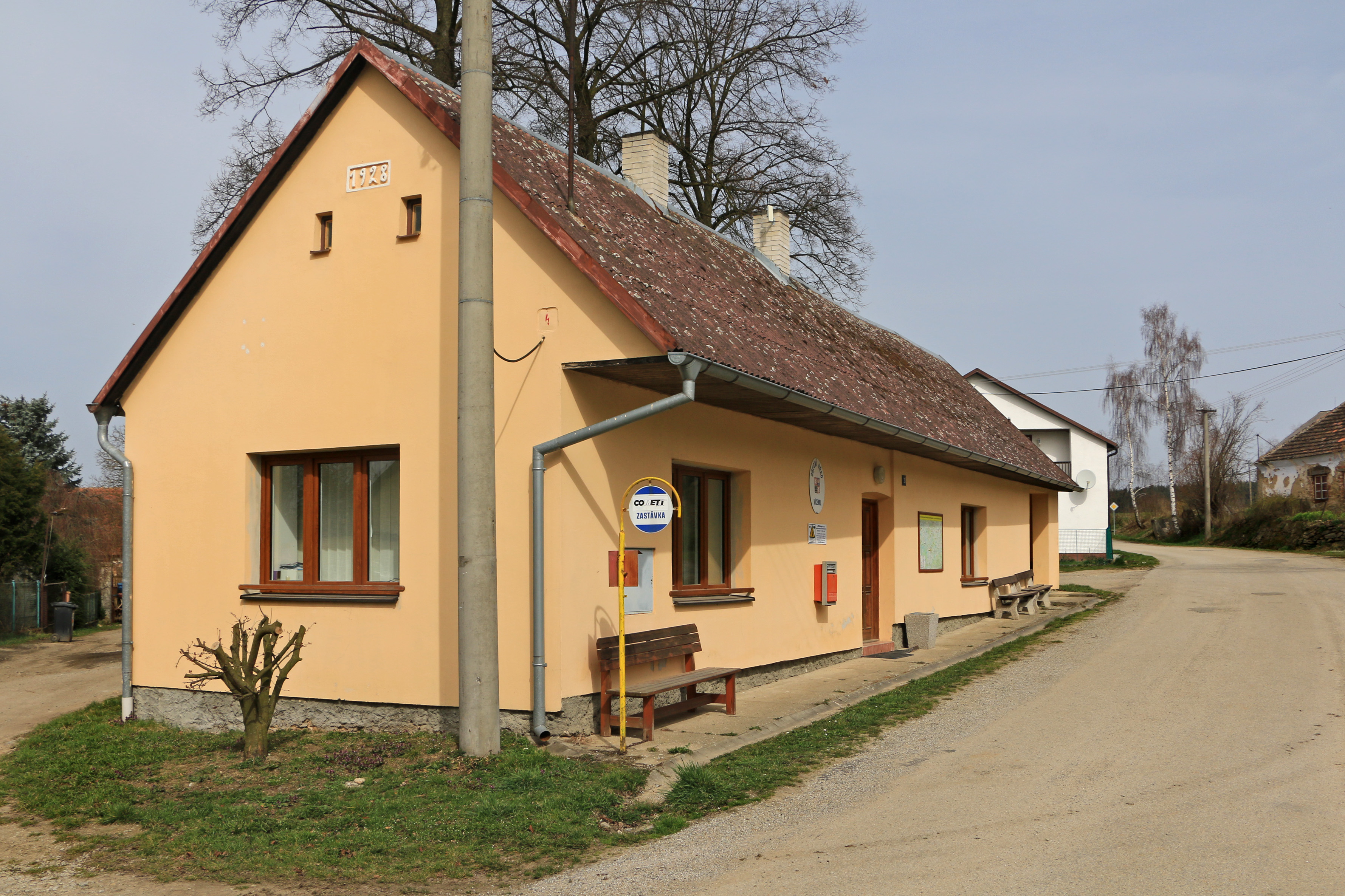 Municipal office in Vícemil village, Czech Republic.